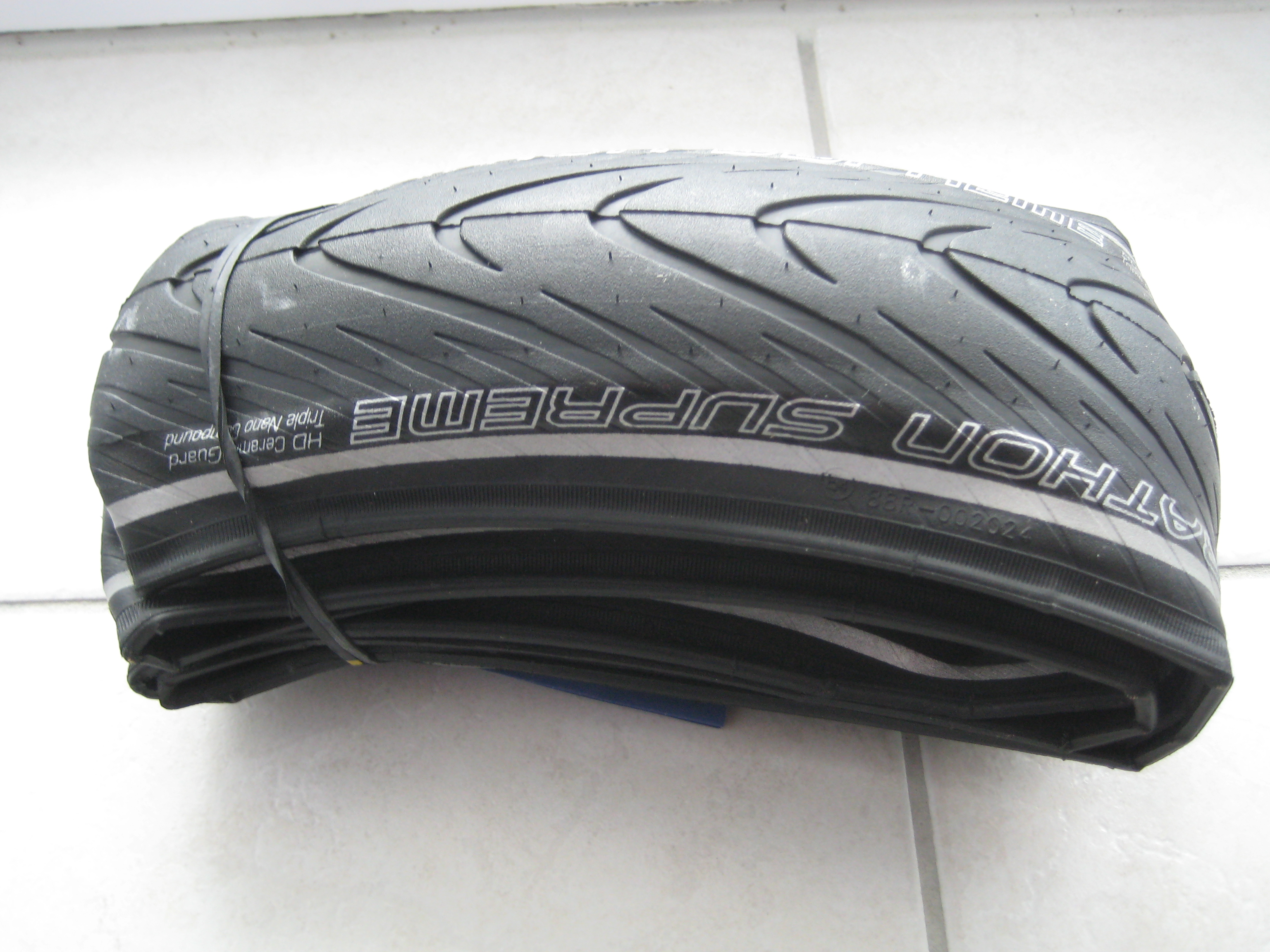 a folded tyre for a 26 inch wheel, marathon supreme by Schwalbe